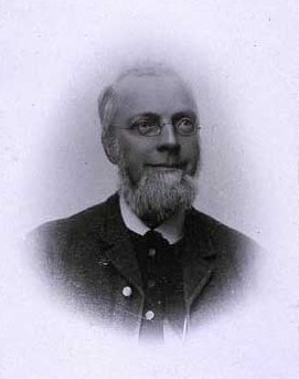 Henning Frederik Feilberg (1831-1921), Danish folklorist, writer, and priest